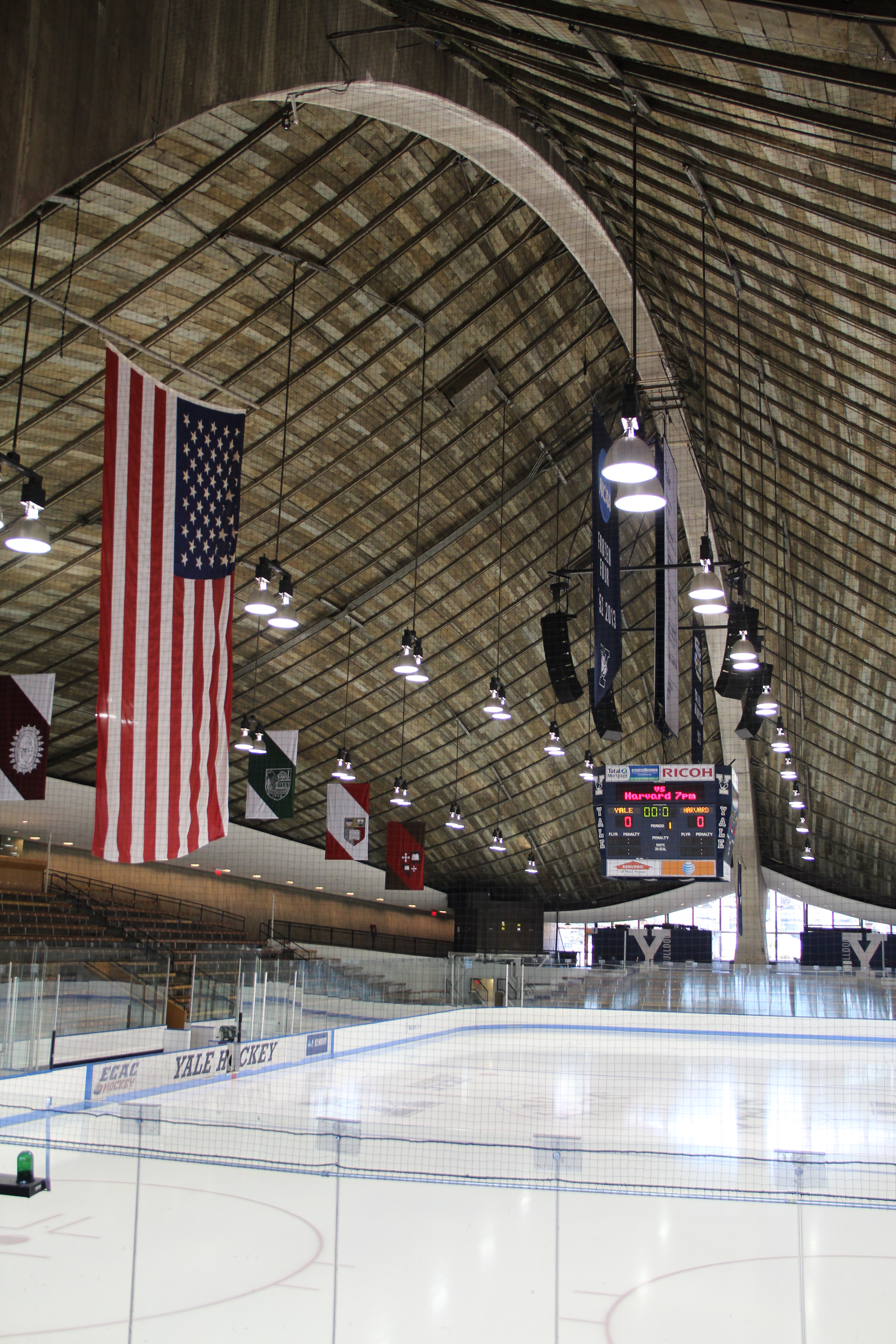 Interior of Ingalls Rink before a Yale-Harvard hockey game, designed by Eero Saarinen, Yale University, New Haven, CT